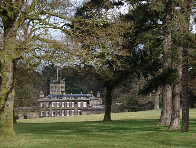 Locko Park Hall Derbyshire in 2008